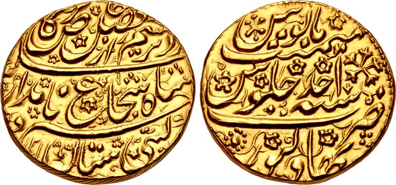 AFGHANISTAN, Durrani Shahs. Shah Shuja' al-Mulk. First reign, AH 1218-1224 / AD 1803-1809. AV Double Mohur (27mm, 22.49 g, 6h). Bahawalpur mint. Dually dated AH 1218 and RY ‘ahd’ (1803). Couplet citing Shah Shuja' al-Mulk; AH date to lower left / Mint formula and RY date. Edge: . Cf. SICA 9, 400 (AR double rupee – same dies); Album 3119; KM 256, but cf. 254 illustration (same dies); cf. Album 24, lot 630 (AR double rupee – same dies, though an earlier die state). Near EF, light die rust. Extremely rare and struck with dies used for the double rupee.